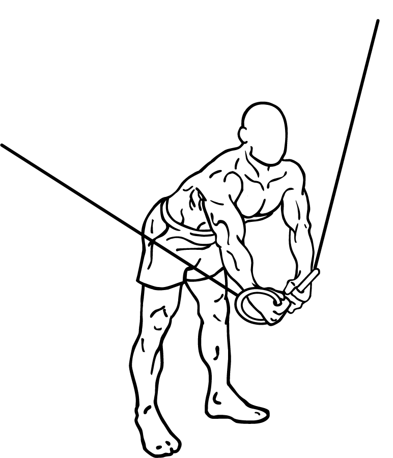 an exercise of chest